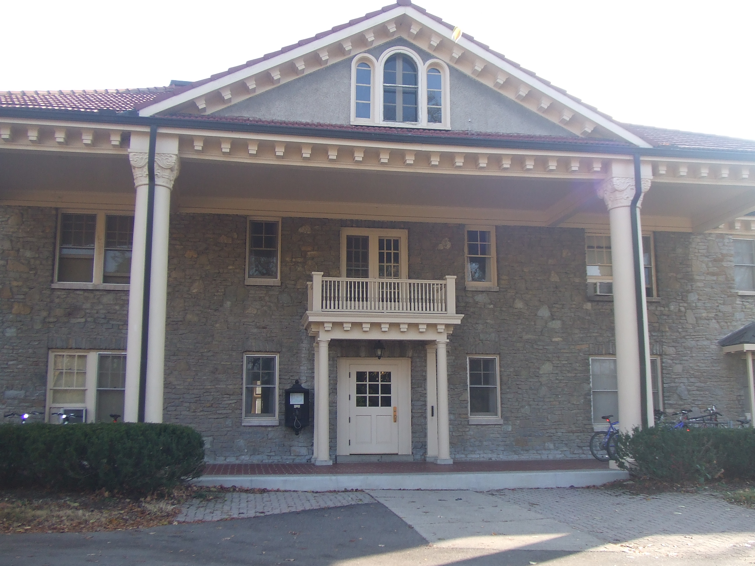 The Front Entrance of Wilson Hall at Miami University of Ohio